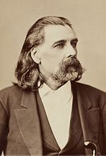 Humorist and lecturer Josh Billings